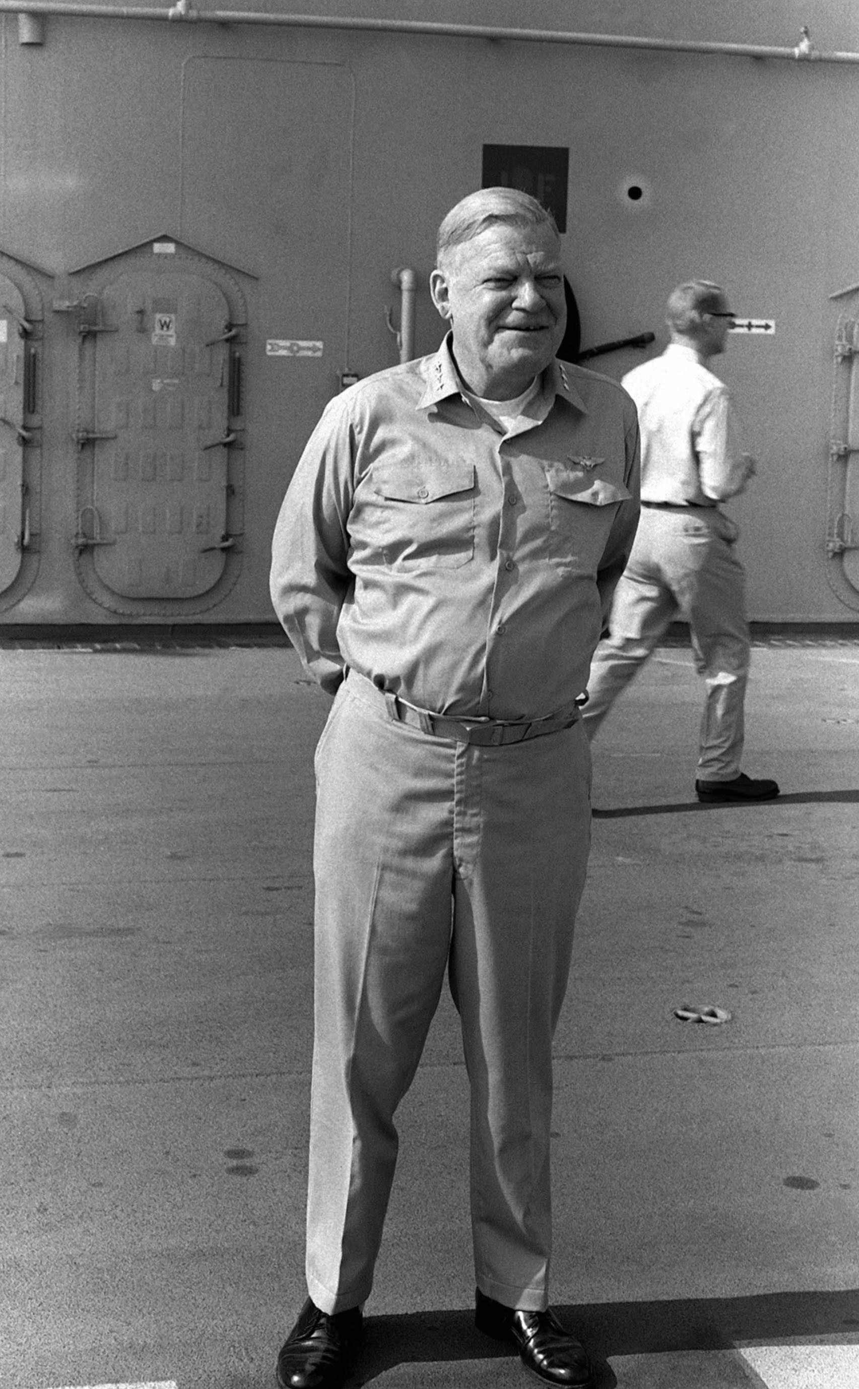 Actor Richard Xavier Slattery played U.S. Navy vice admiral William F. Halsey during a scene from the TV miniseries "The Winds of War" taking place aboard the amphibious assault ship USS Peleliu (LHA-5) in December 1981. The Peleliu was being used to simulate the World War II aircraft carrier USS Enterprise (CV-6) in Part VII "Into the Maelstrom" in late 1941.